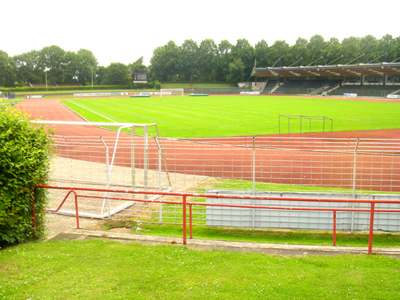 Matthias Goerigk selbst fotografiertes und bearbeitetes Foto (mit SONY Cybershot)